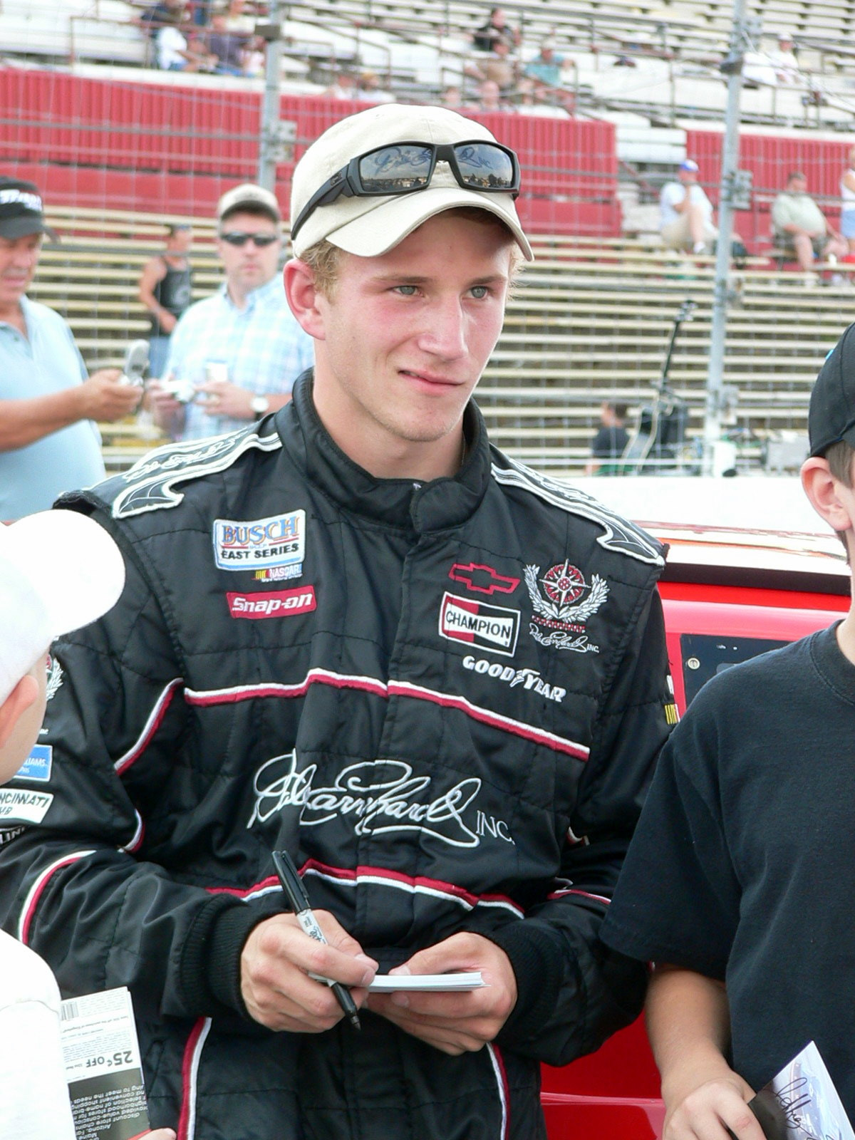 NASCAR Busch East Series (now Camping World East Series) driver Jeffrey Earnhardt in 2007 at Nashville. Jeffrey Earnhardt is the middle child of Renee Earnhardt and Kerry Earnhardt, grandson of the late Dale Earnhardt Sr., great-grandson of Ralph Earnhardt and nephew to Dale Earnhardt, Jr.